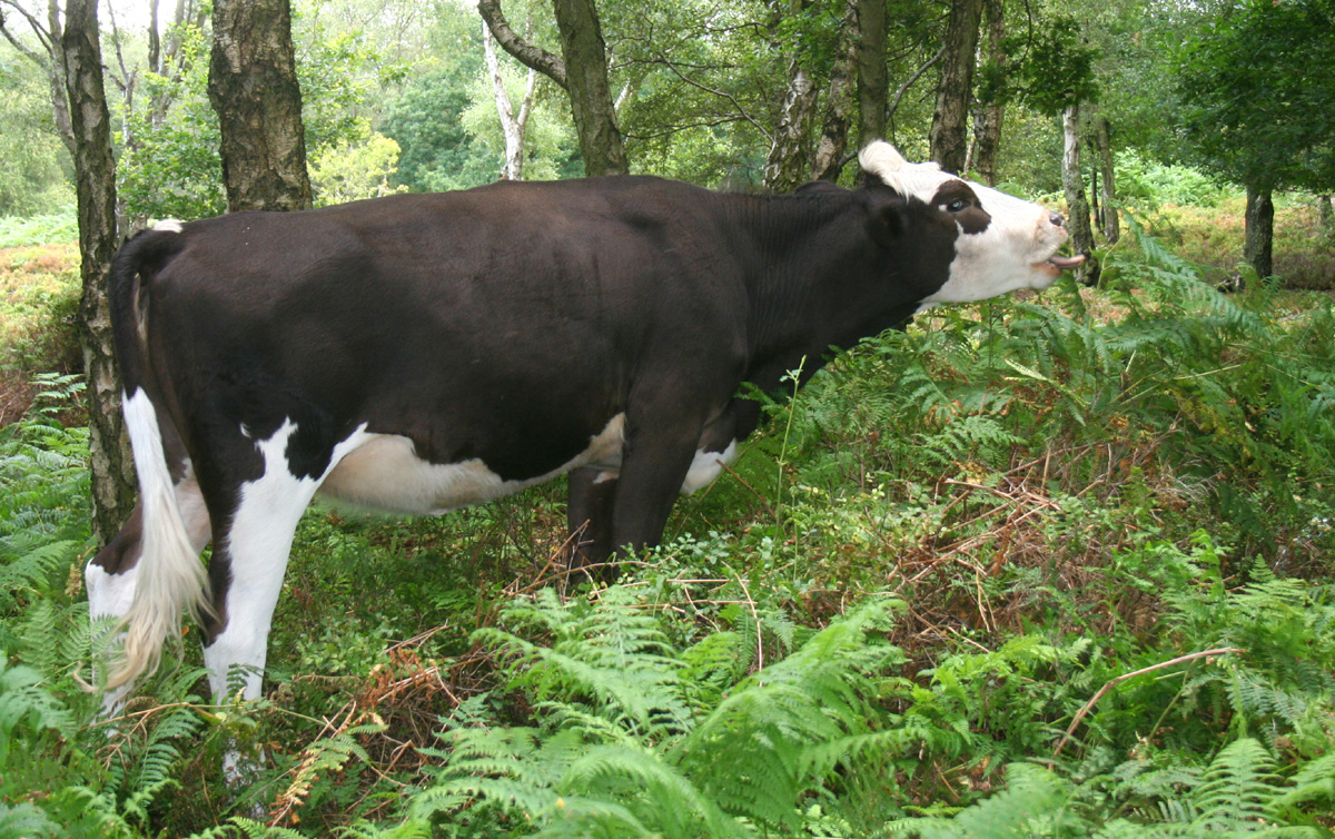 Cow eating bracken in birch woods at Bickerton Hill, Cheshire (SJ 501 527)